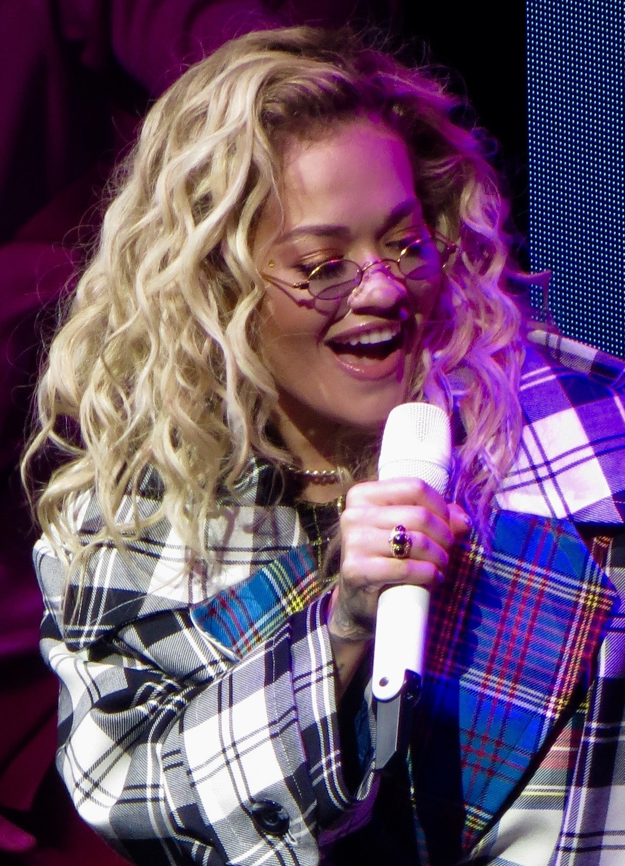 Rita Ora at The Girls Tour in Glasgow